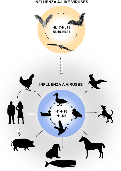 Natural reservoirs of classical IAVs are wild water birds, from which they can be transmitted to a wide variety of other species. Bat influenza A-like viruses are likely to circulate in various bat species in Central and South America and possibly originate from classical IAVs (indicated by dashed arrow).